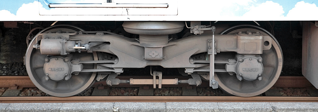 Sumitomo Metal Industries type SS127 bogie truck of Nankai 1000 series ( II ) ( Moha 1101 )